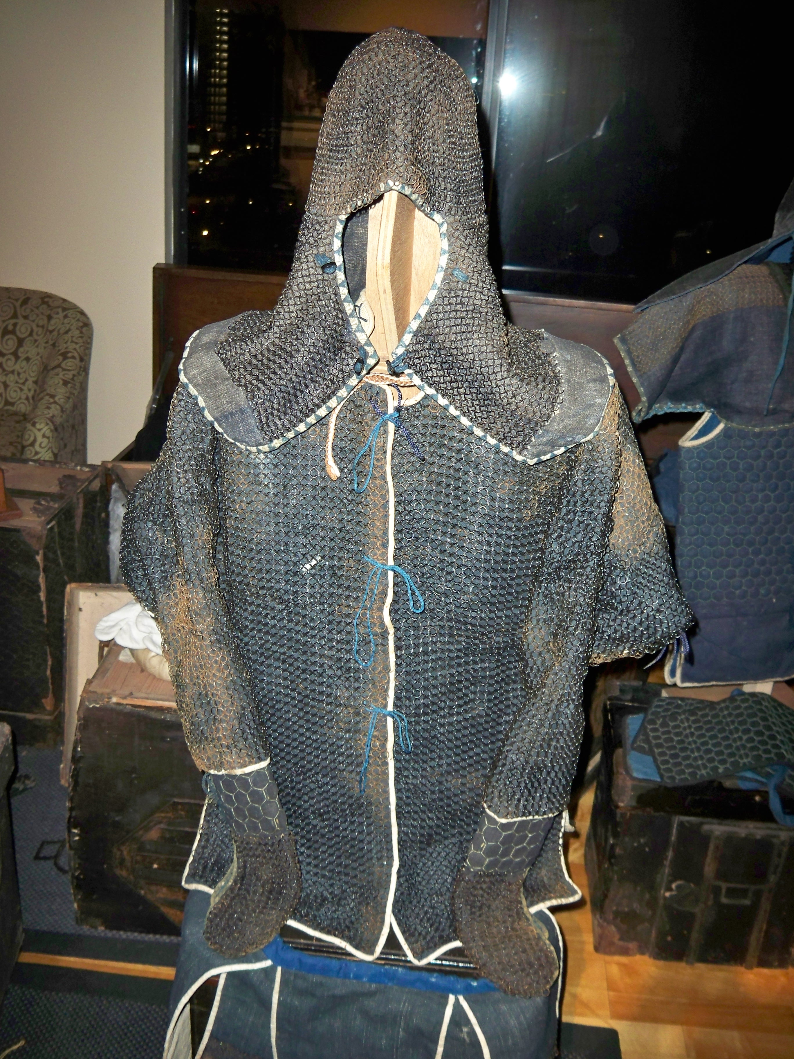 Antique Japanese (samurai) Edo period kusari katabira.